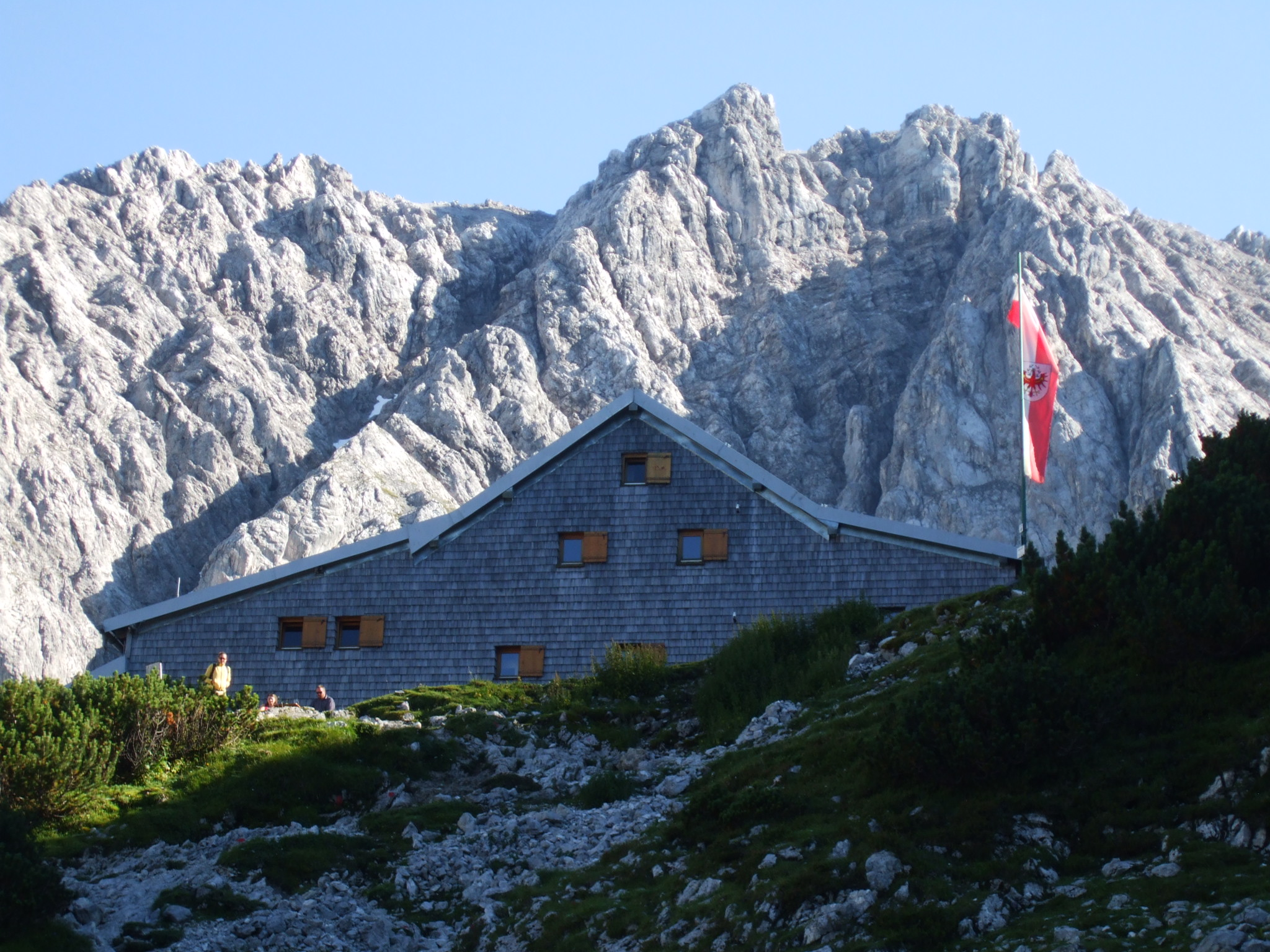 View to north: Coburger Hütte (1917 m), a mountain hut, with the east-ridge of Grünstein in the background (without summit (2661 m)).